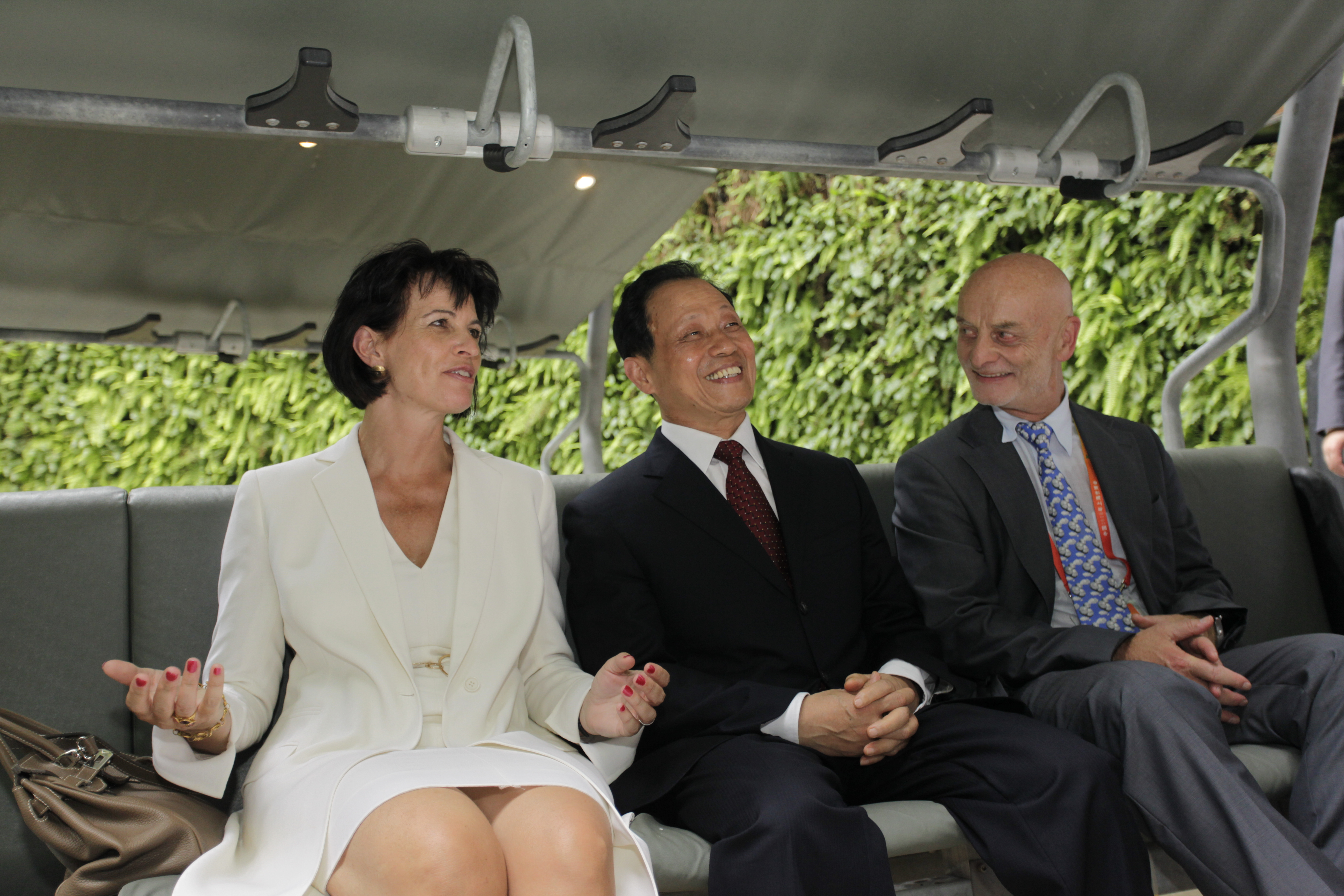 Swiss Pavilion Expo 2010 Shanghai: President of the Swiss Confederation Ms Doris Leuthard, Mr Wu and Commissioner General of the Swiss Pavilion Dr Uli Sigg on the chair lift.